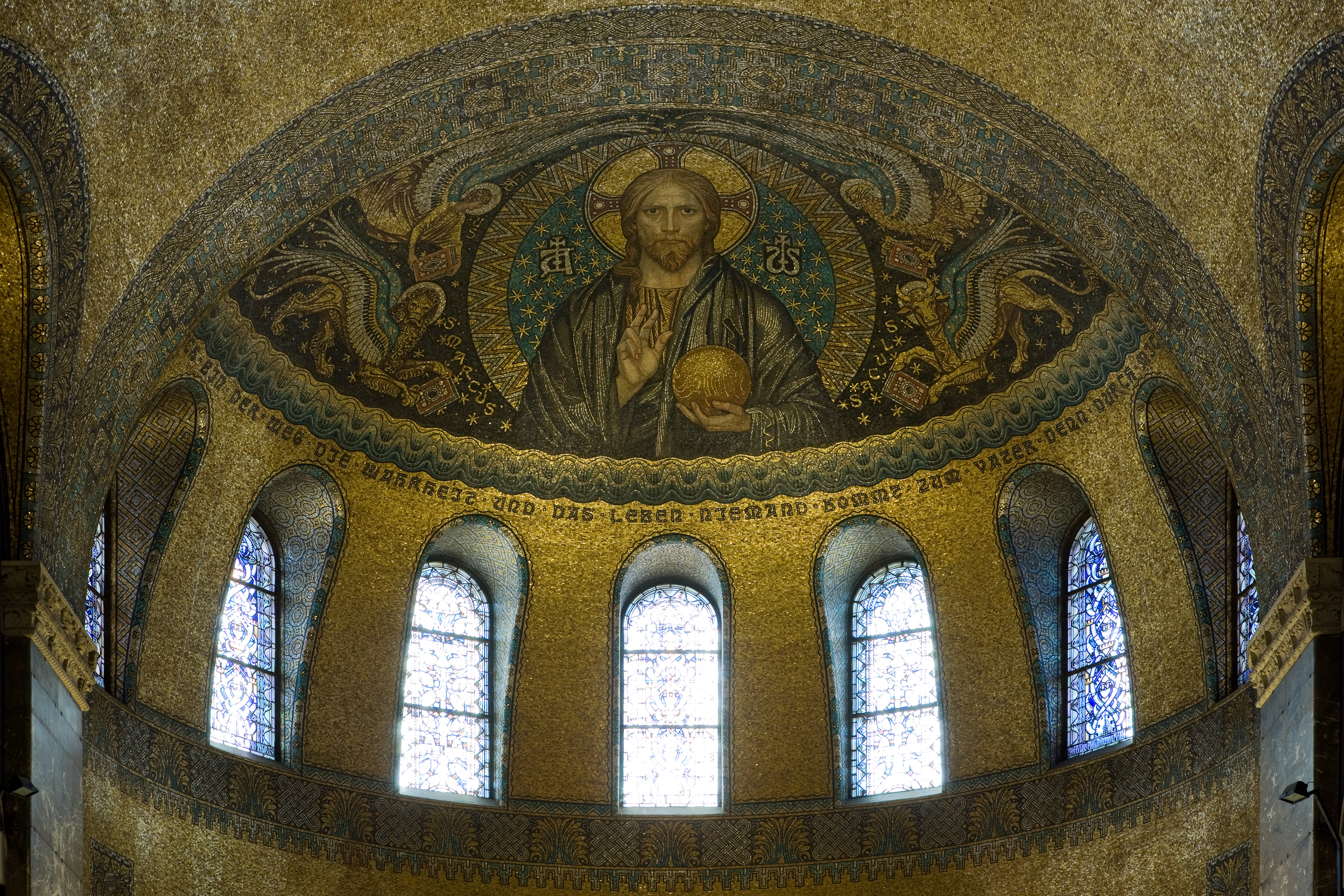 Bad Homburg: Erloeserkirche (Church of the Redeemer), apsis mosaic as seen from the central nave